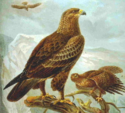 lesser spotted eagle Image from